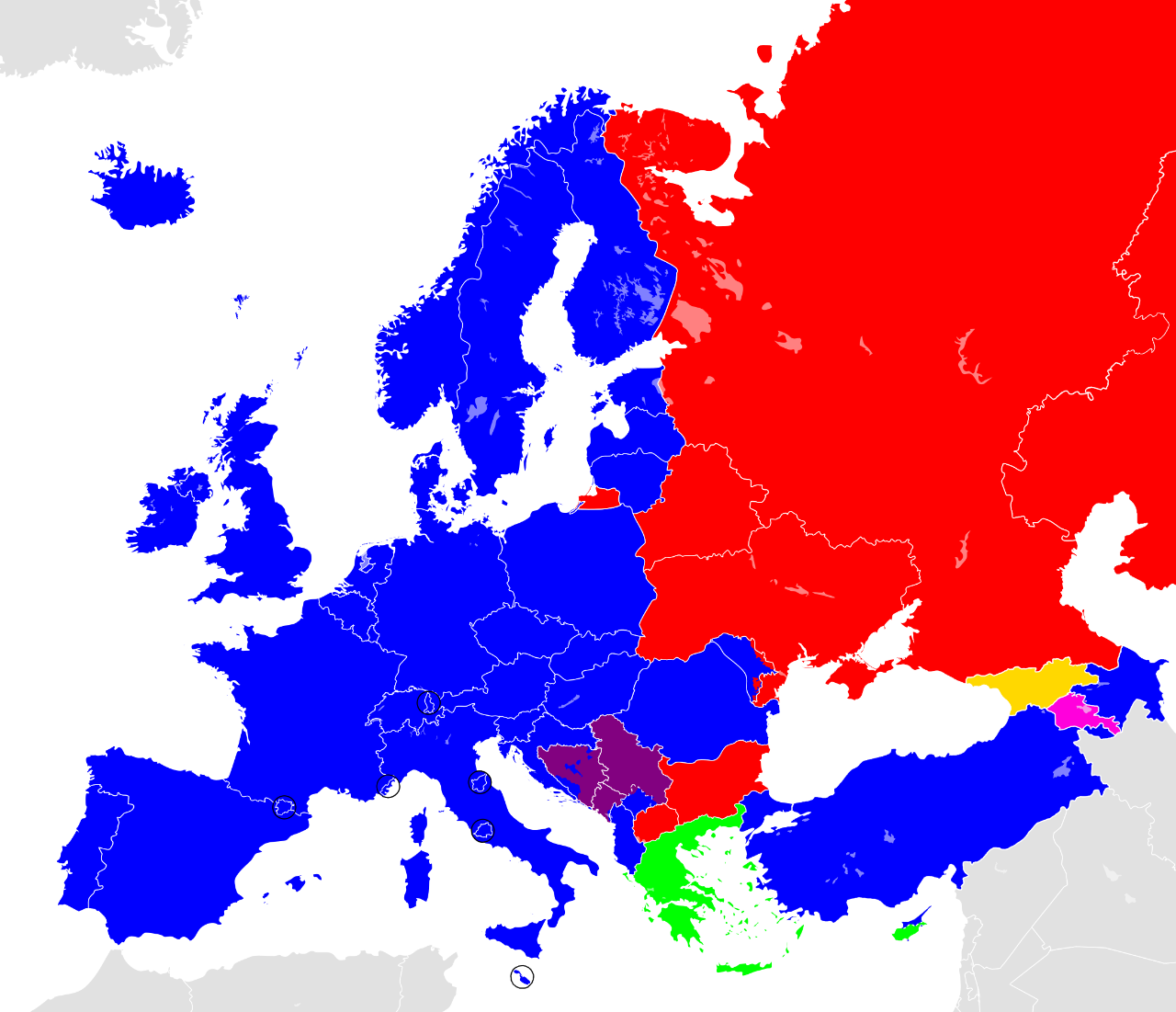 The spreading of main alphabets in Europe and the surrounding countries: Latin alphabet Cyrillic alphabet Greek alphabet Latin and Cyrillic alphabet Greek and Latin alphabet